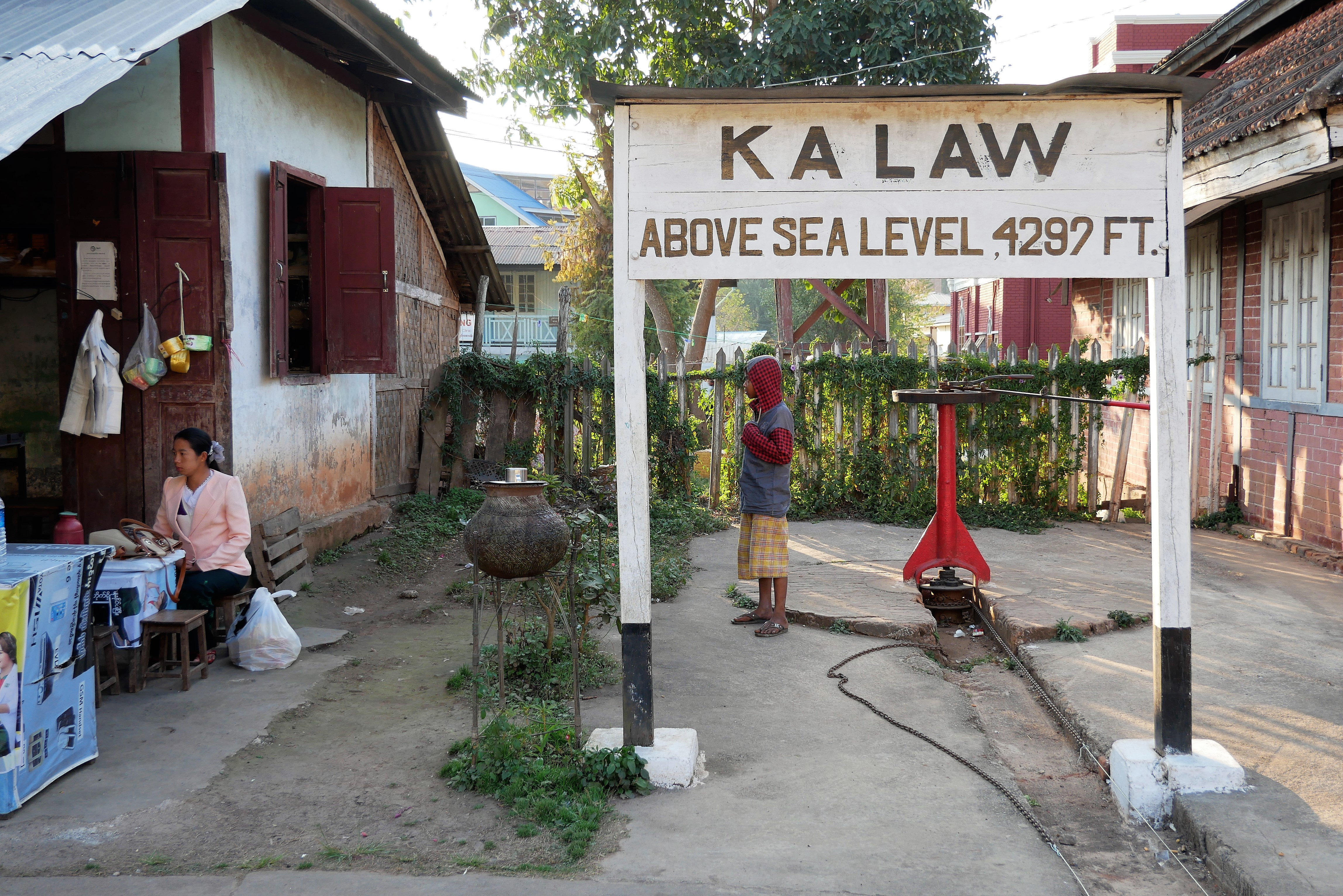 Railway station in Kalaw, Myanmar